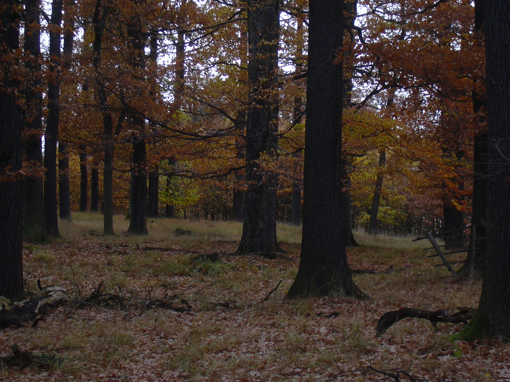 Mixed wood on the slopes of Těchovín, the highest point of Křivoklátsko protected area, Czech Republic